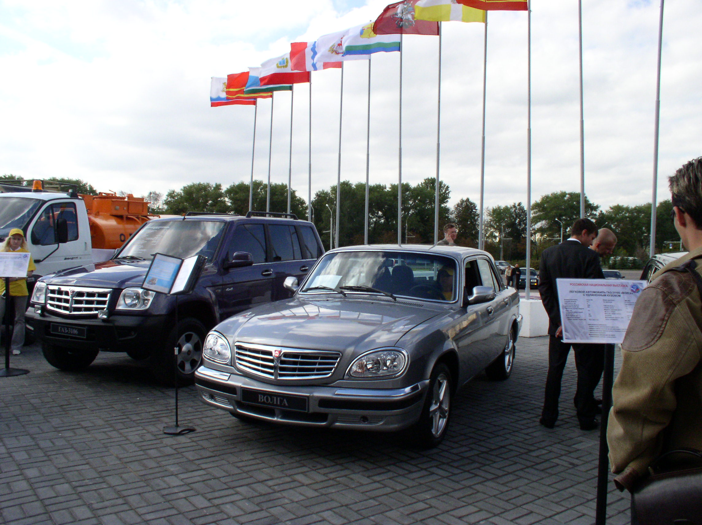 GAZ 31105 "Volga".